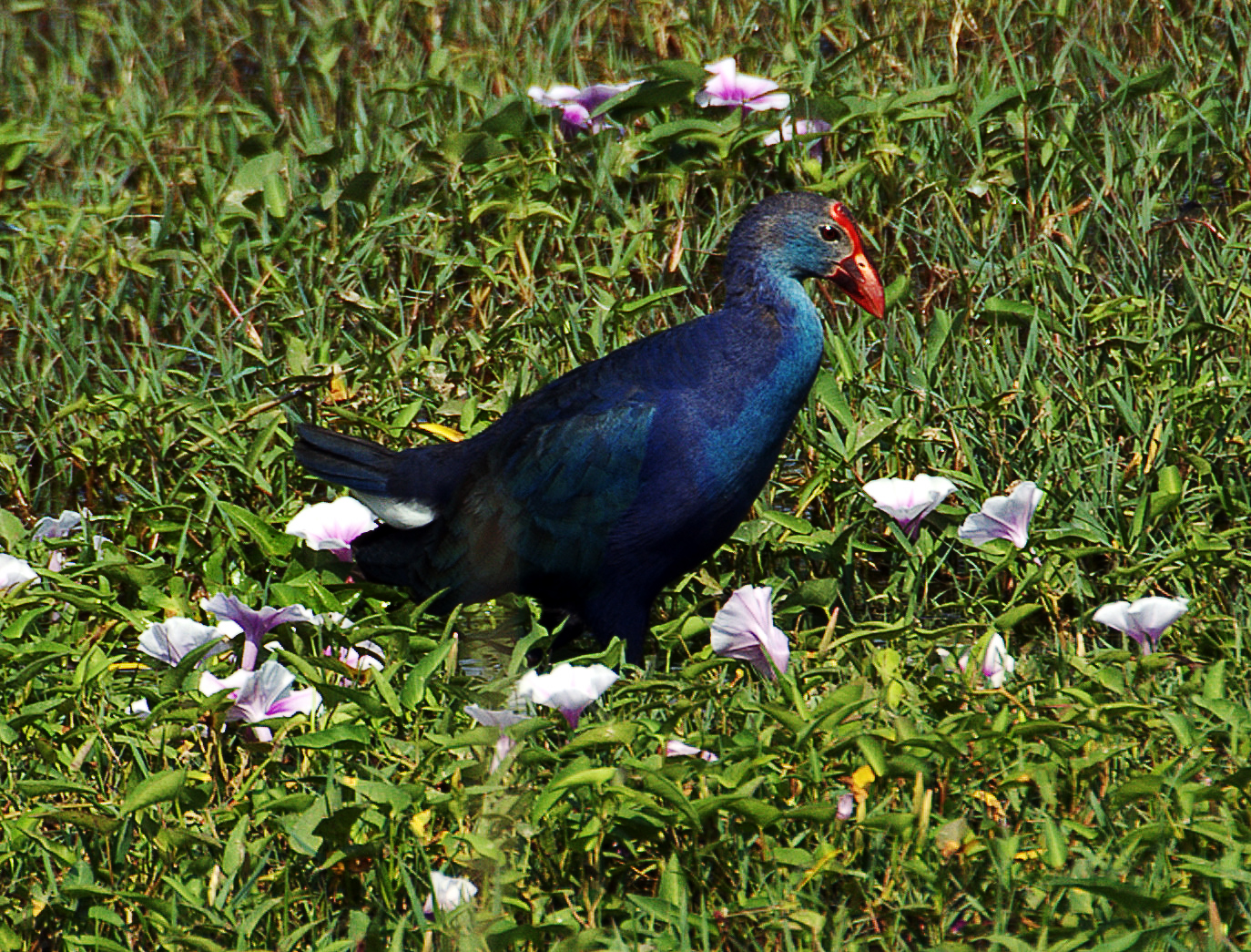 Purple Swamphen, Porphyrio porphyrio, Thol, Gujarat